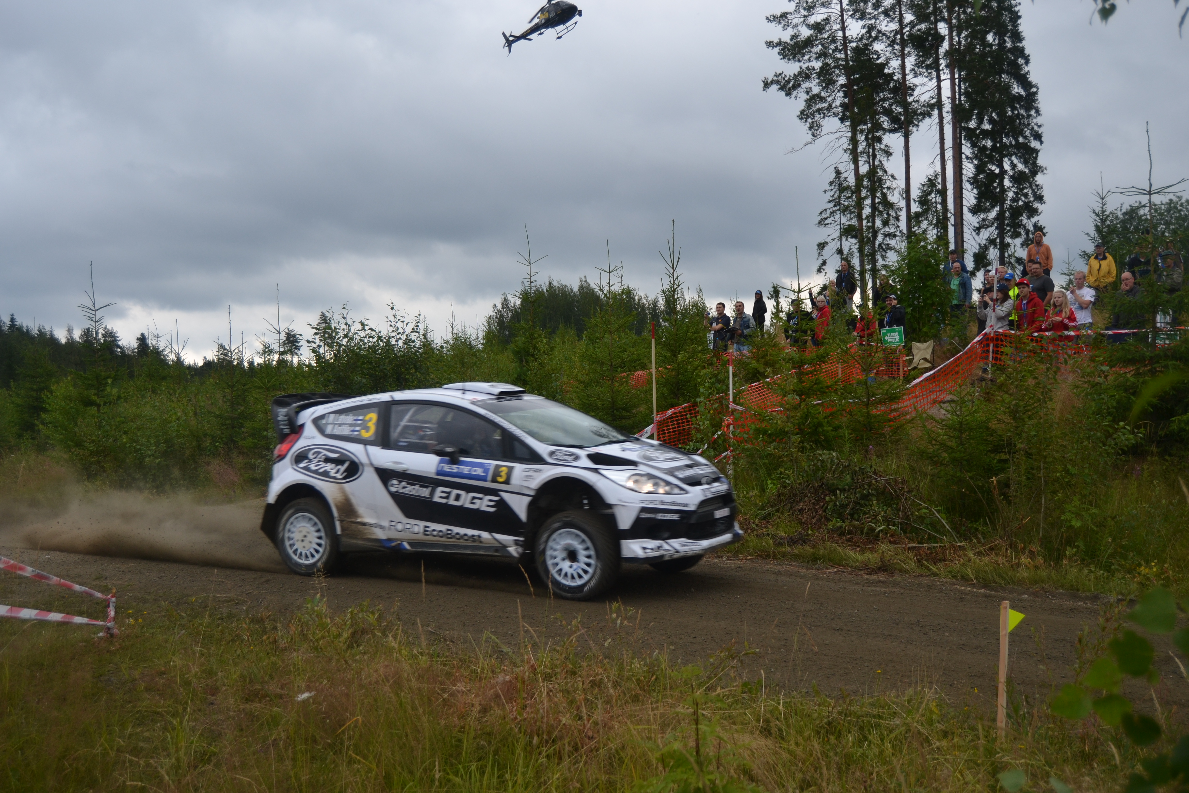 Jari-Matti Latvala at 2nd Surkee stage at 2012 Rally Finland Unknown